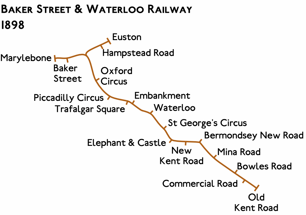 Geographic Map of the Baker Street & Waterloo Railway, 1898.